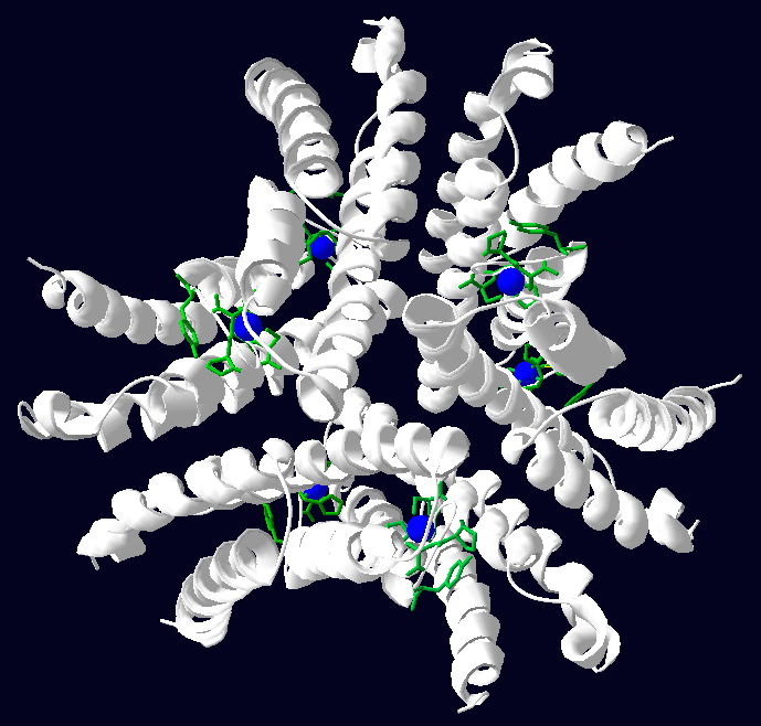 SwissPDB viewer rendering of Ni-SOD with the nickel cofactors and nickels binding hooks highlighted.